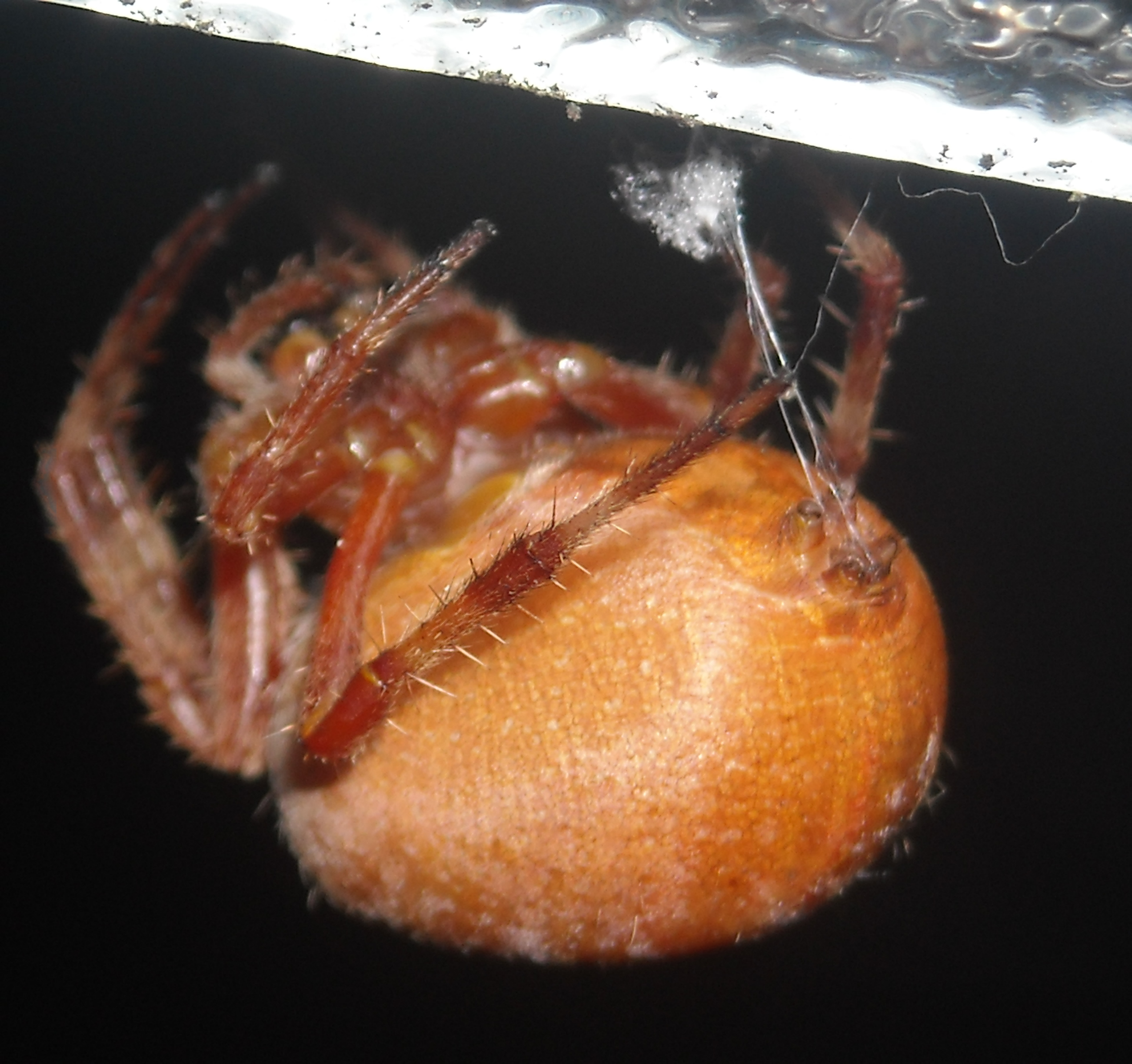 In time for Halloween: a spectacular orb weaver (spider) visited my pantry. The spider was hanging upside down from a pane of a louvered window when I grabbed the nearest camera: a very inexpensive Nikon L18 point and shoot. One has to credit Nikon for an excellent macro function even on this low end camera. In this image, the cephalothorax detail is lost to depth of field but the spinnerets are clearly visible.